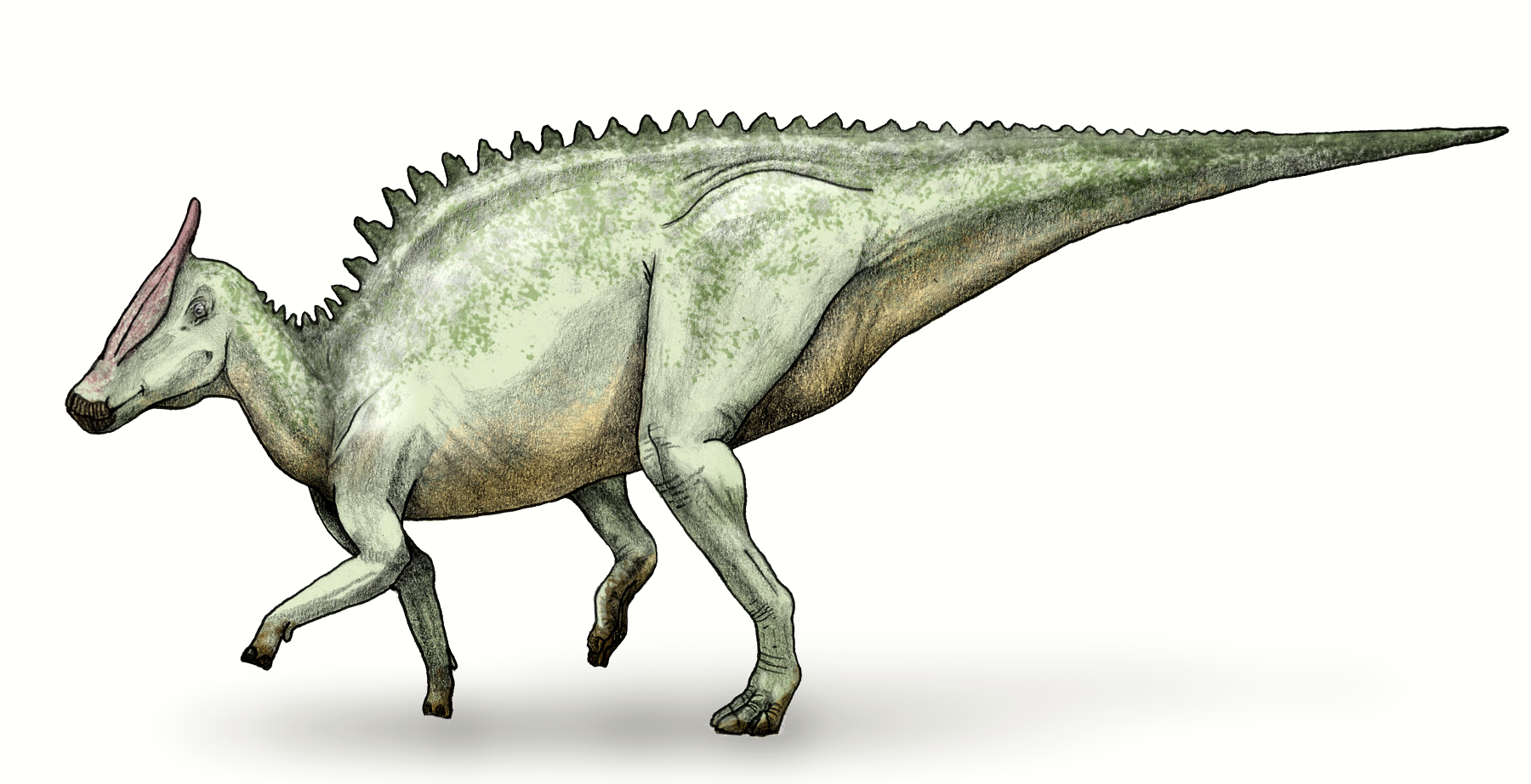 Sketch of Saurolophus, a hadrosaurid ornithischian dinosaur of the late creataceous of North America and Asia.